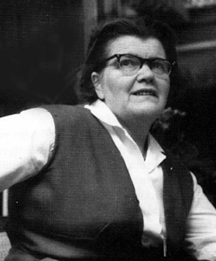 Swedish author Astrid Pettersson